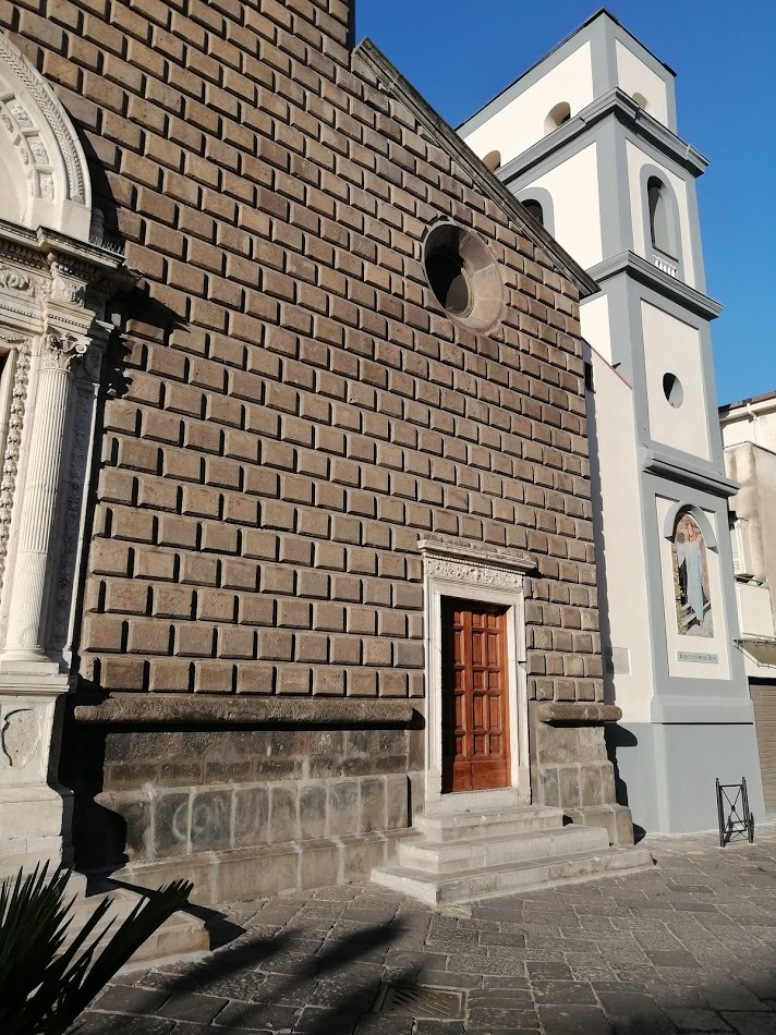 Bell tower of the Collegiate Church of San Giovanni Battista-Angri (Sa).